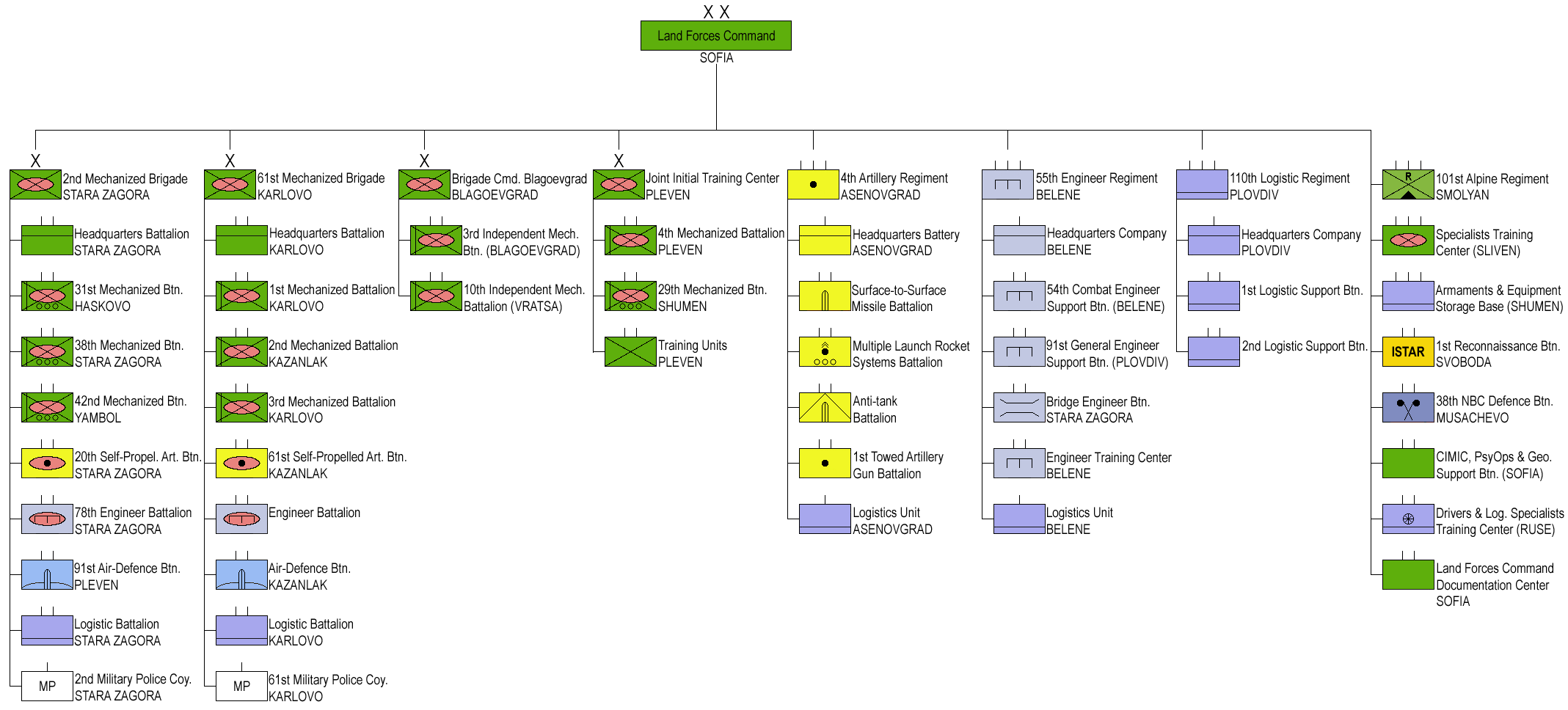 Structure of the Bulgarian Land Forces 2018